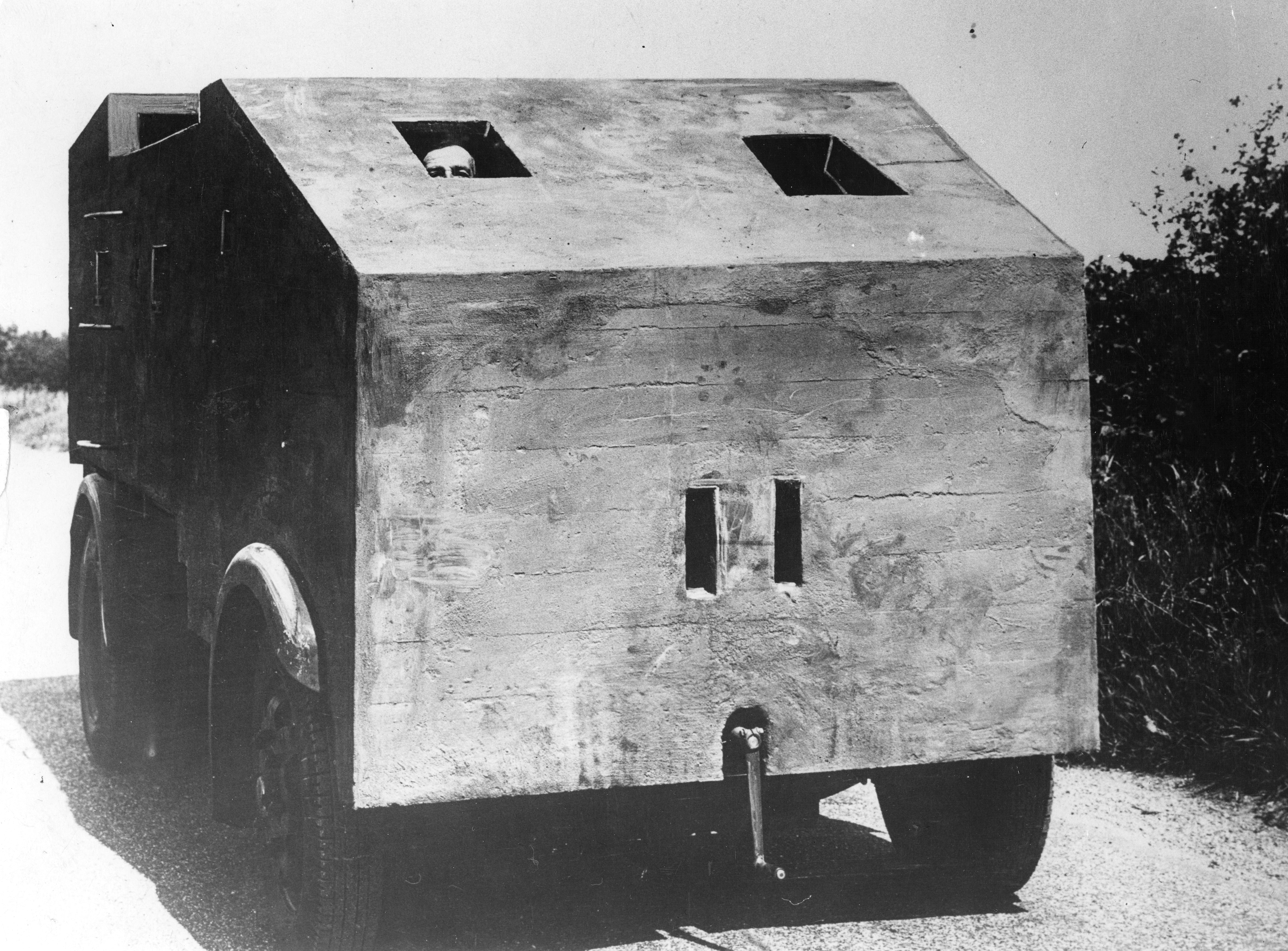 Short Wheeled Bison